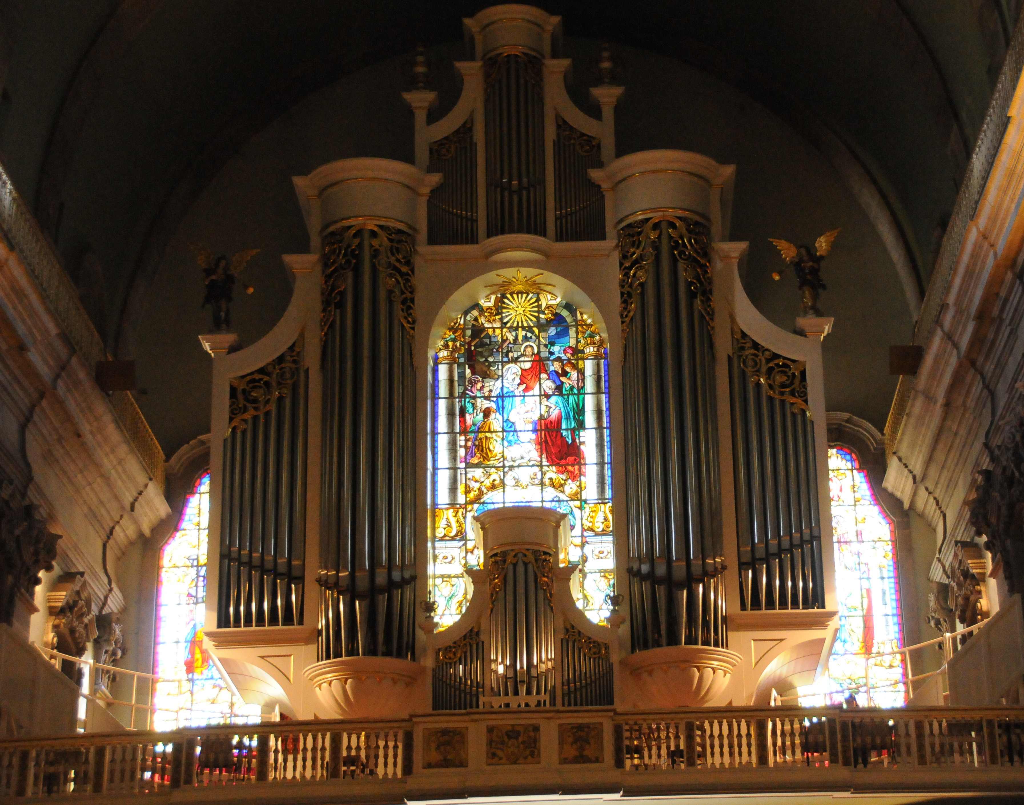 Church of Lapa, Porto, Portugal.